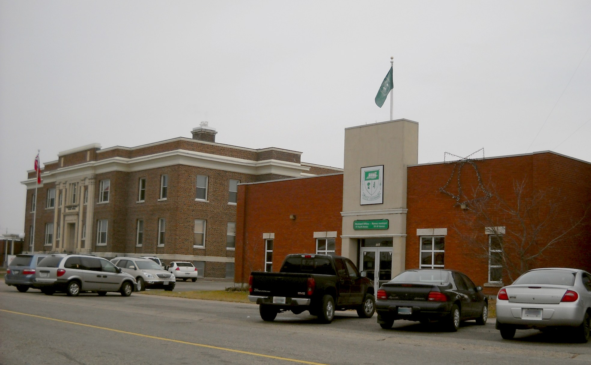 Municipal office and district courthouse in Cochrane, Ontario, Canada